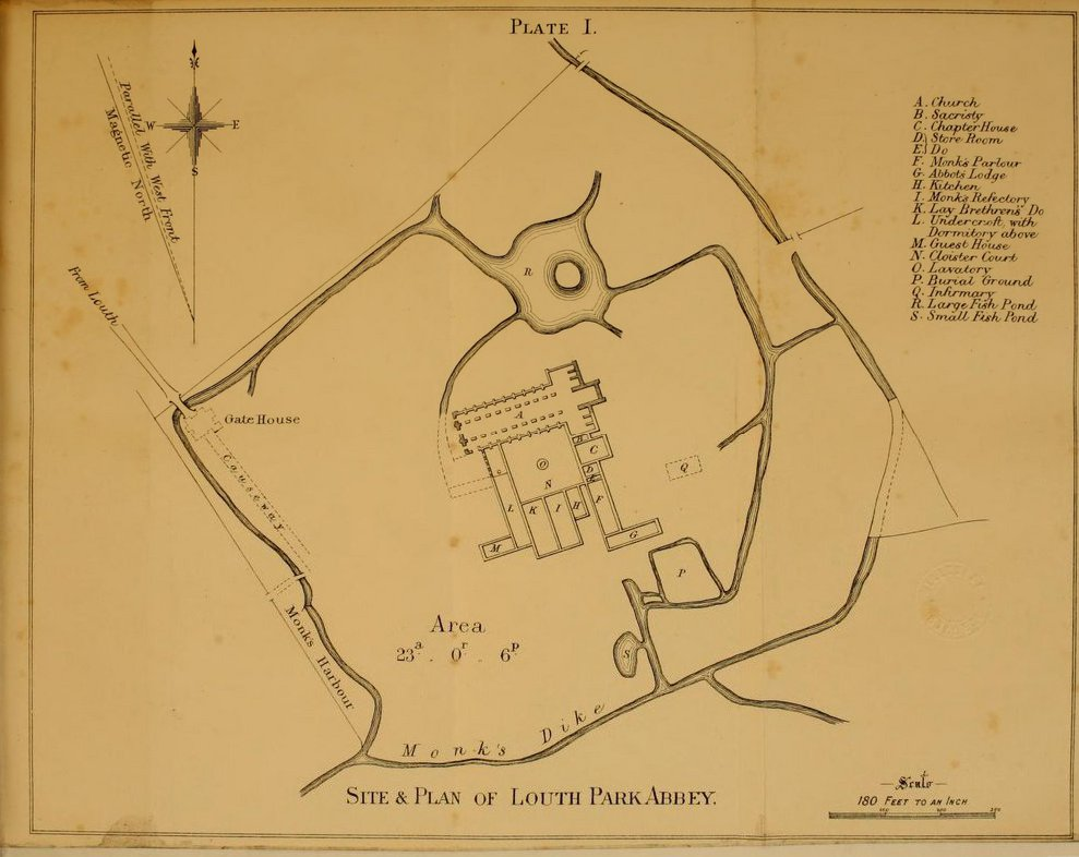 Plan of the former Louth Park Abbey in Louth, Lincolnshire.